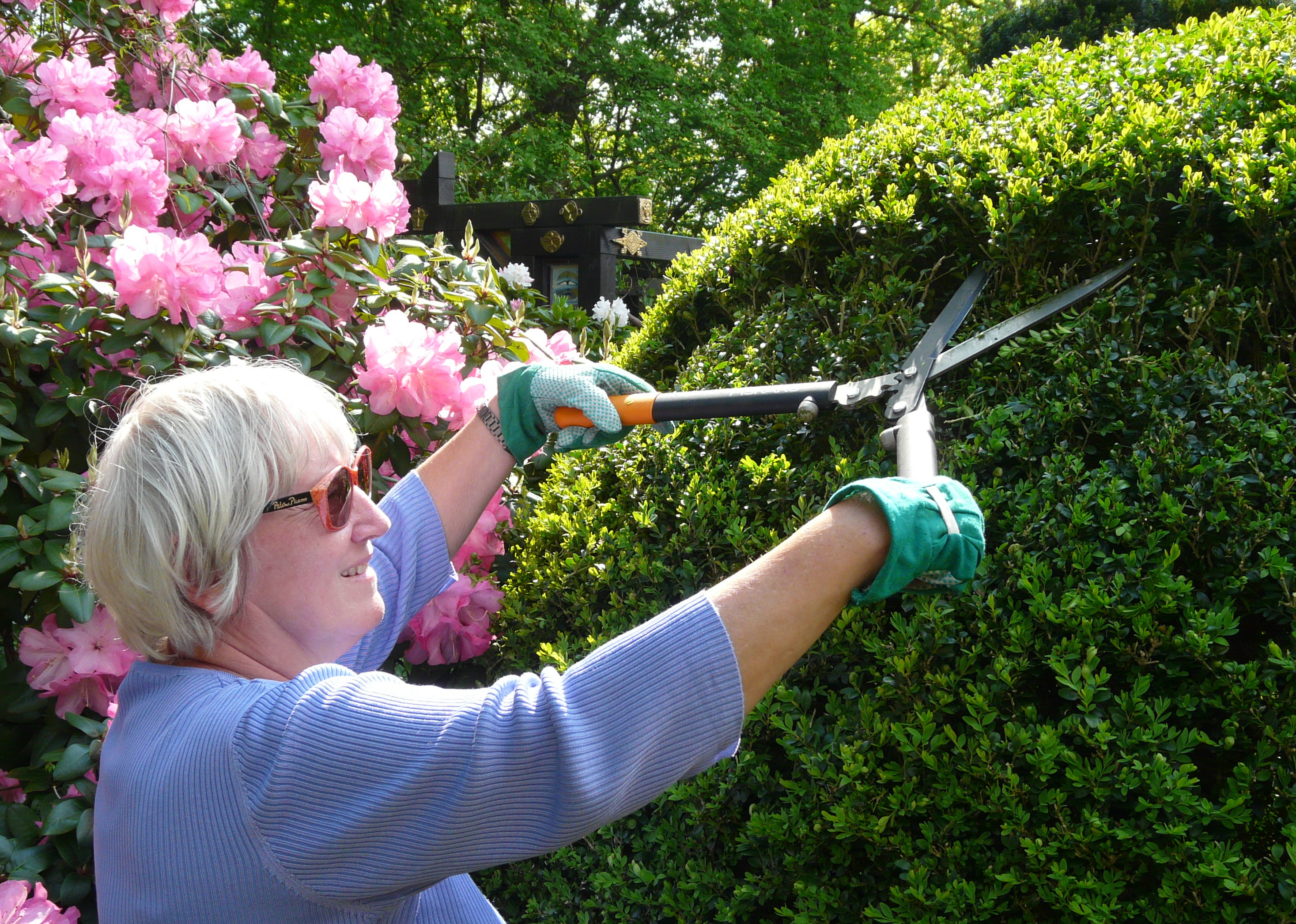 Boxwood clipping with two-handed shears